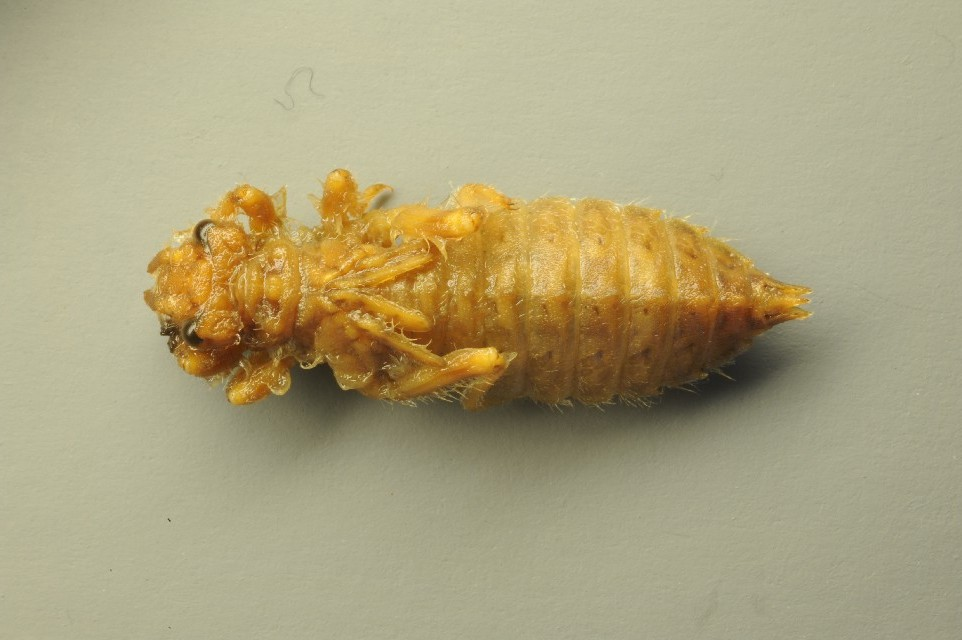 Nymph exuvium of Ophiogomphus cecilia